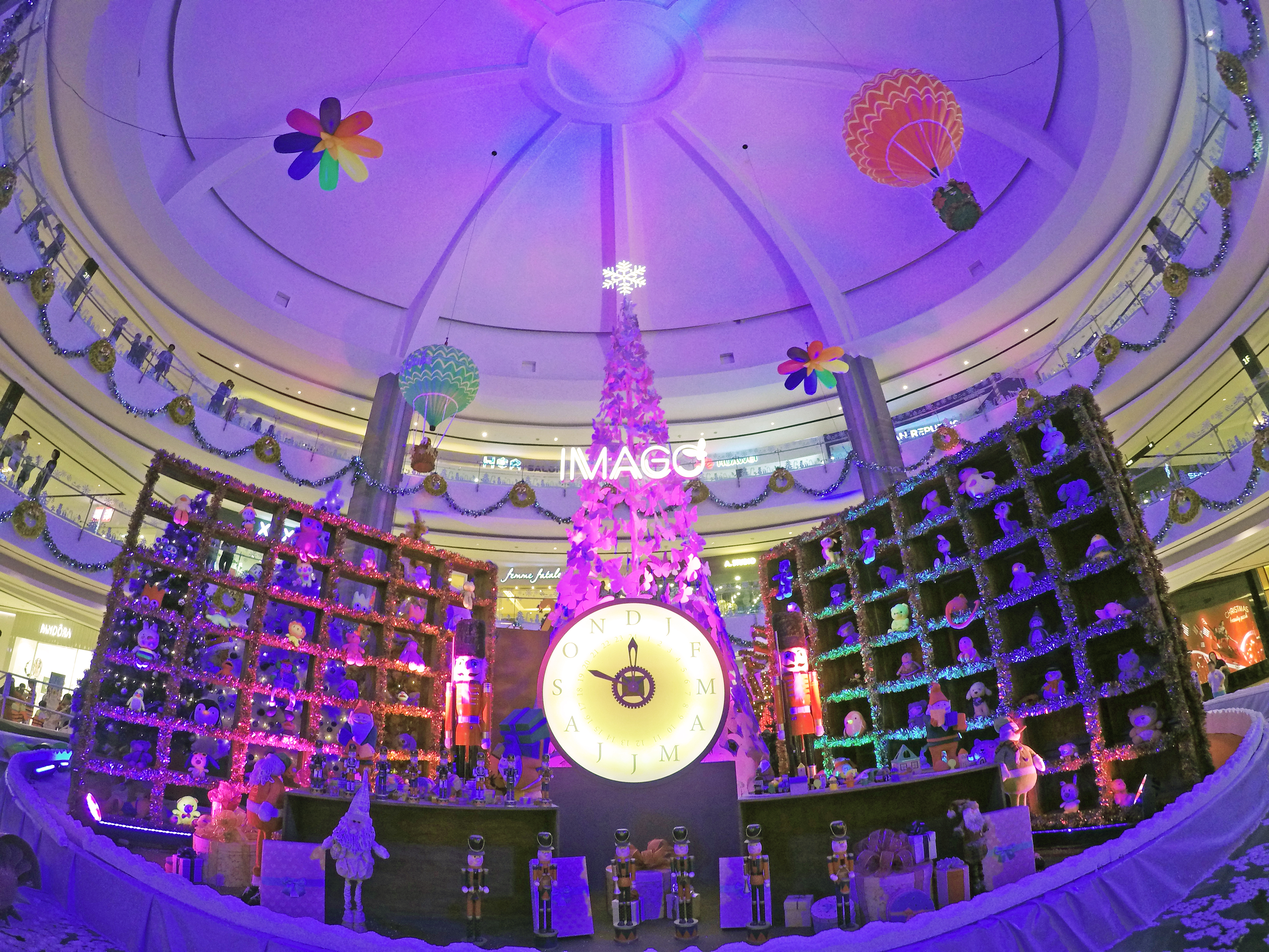 Christmas 2017 - The Odyssey